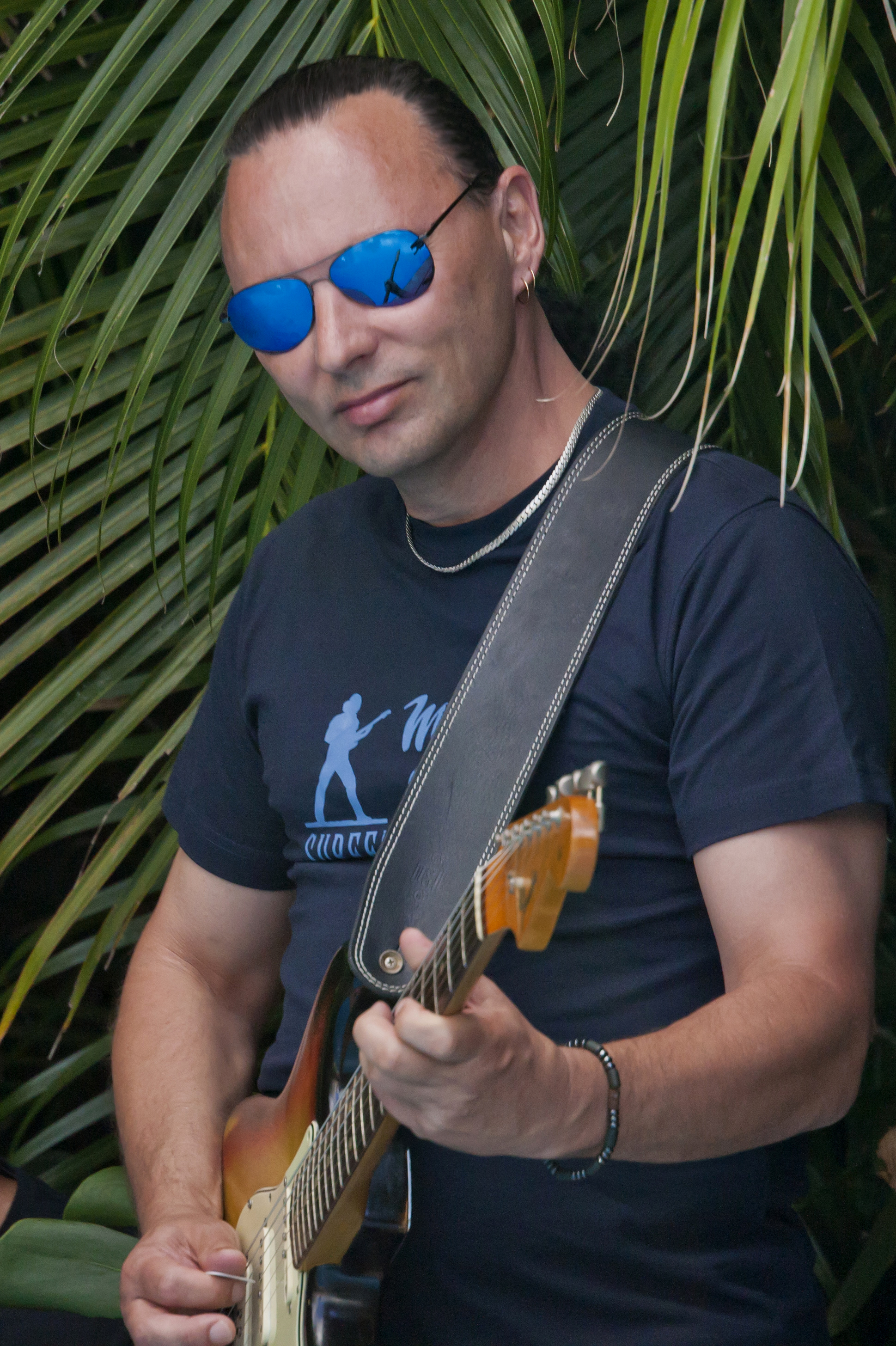 Australia's premier Surf Guitarist, Martin Cilia